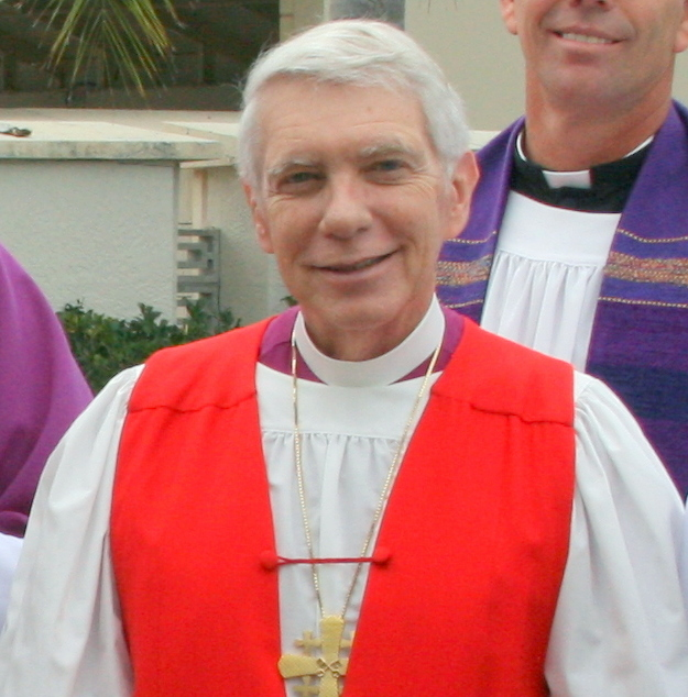 Episcopal Diocese of Southwest Florida Chrism Mass 2013